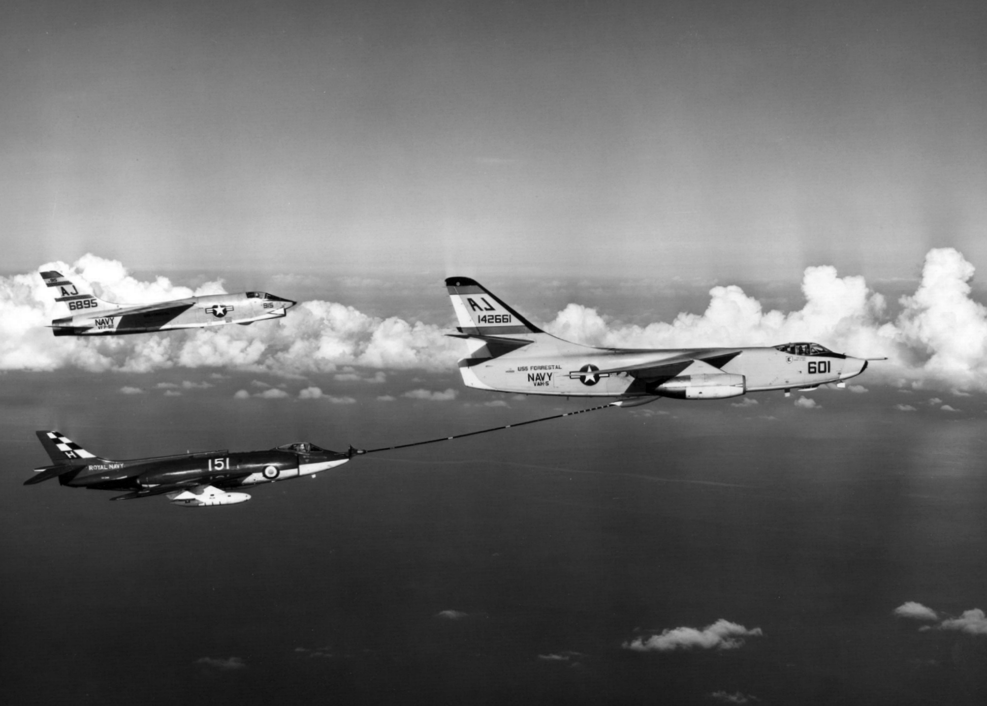 A U.S. Navy Douglas A3D-2 Skywarrior (BuNo 142661) from Heavy Attack Squadron 5 (VAH-5), Carrier Air Group 8 (CVG-8), from USS Forrestal (CVA-59) refueling a Royal Navy Supermarine Scimitar F.1 (s/n XD244) of 803 Naval Air Squadron from HMS Hermes (R12) in 1962-63. The aircraft are accompanied by a Vought F8U-1P Crusader (BuNo 146895) from Light Photographic Reconnaissance Squadron 62 (VFP-62) Det. 59 Fighting Photos.